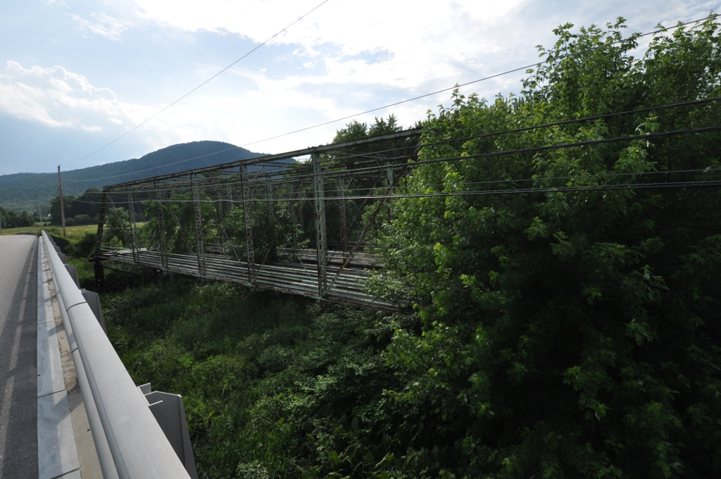 Meadow Bridge, Shelburne, New Hampshire; these trusses lie on the south side of the Androscoggin River.